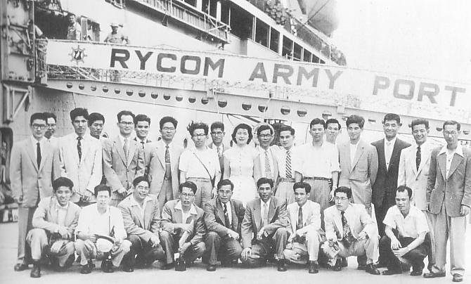 US Army Scholarships in Okinawa